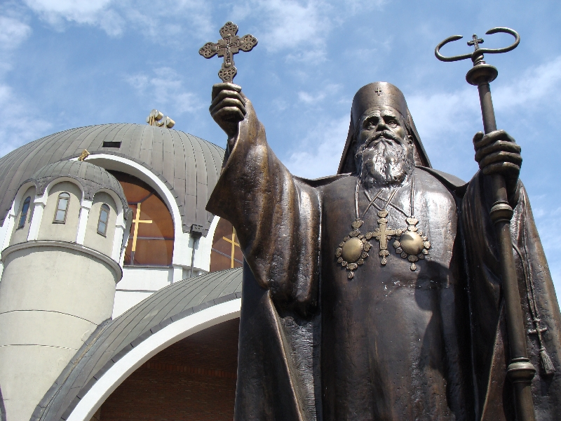 Statue of Dositheus II in front of the Church of St. Clement of Ohrid in Skopje.